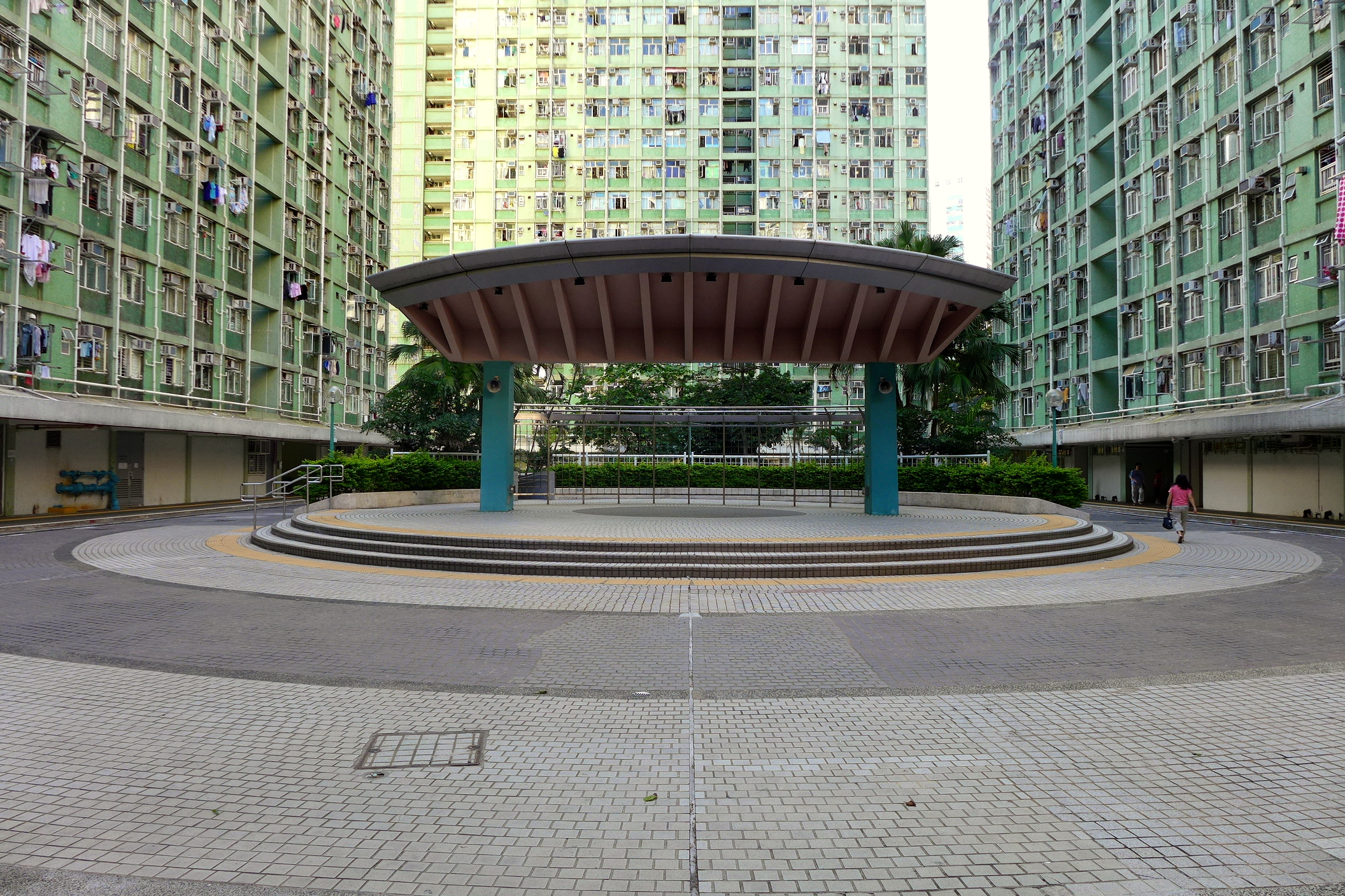 Siu Sai Wan Estate Amphitheatre